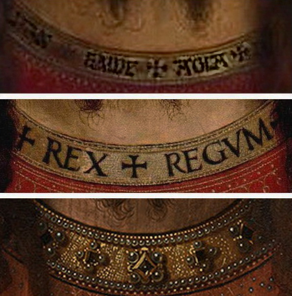 A comparison between the shirt collars of three similar paintings of the Vera Icon ("True Image of Christ") attributed to Jan van Eyck or followers, ca. 1440 or later. Top: Alte Pinakothek, Munich. Middle: Gemäldegalerie, Berlin. Bottom: Groeningemuseum, Bruges. Montage by Kleon3 of 3 images that have previously been uploaded to Wikimedia Commons under a free licence: File:Jan van Eyck Vera Icon.jpg File:Van Eyck (workshop), Holy Face, 1438, Berlin.jpg File:Vera Icon, circa 1601 - circa 1625, Groeningemuseum, 0040117000.jpg